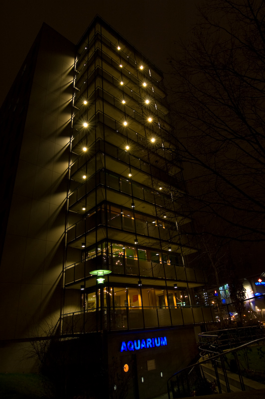 Dresden Studentenwohnheime St. Petersburger Straße